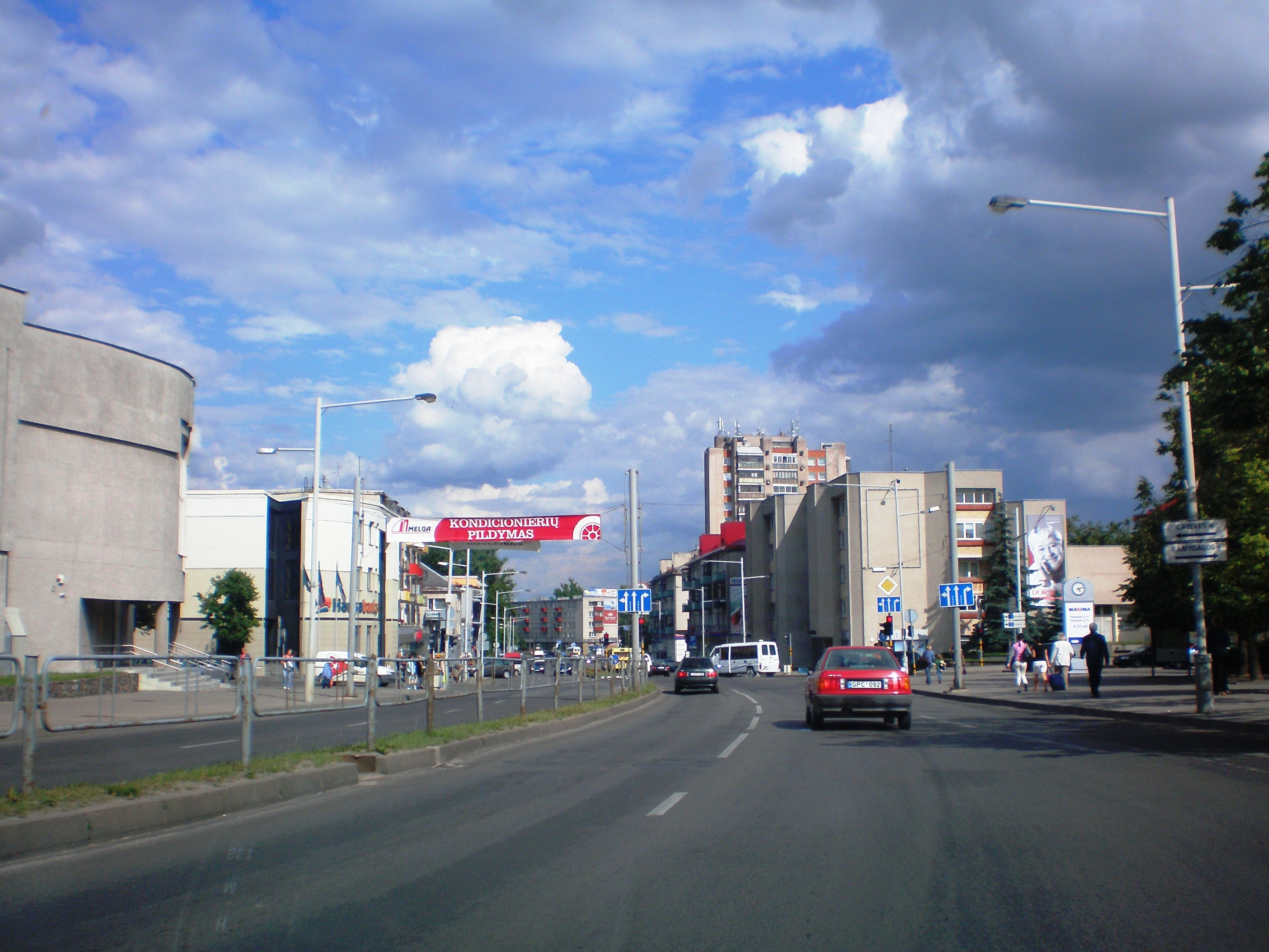 Center of Panevėžys